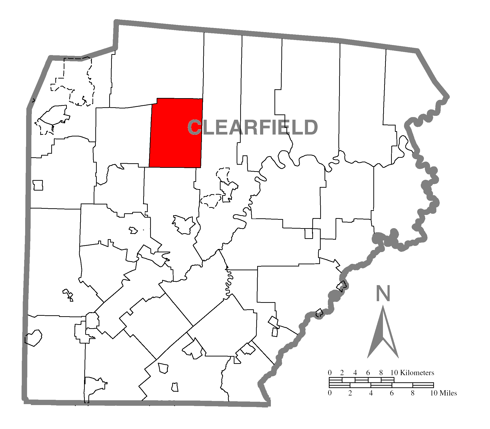 A map of Clearfield County showing Pine Township, Pennsylvania (alternate) highlighted on the map.